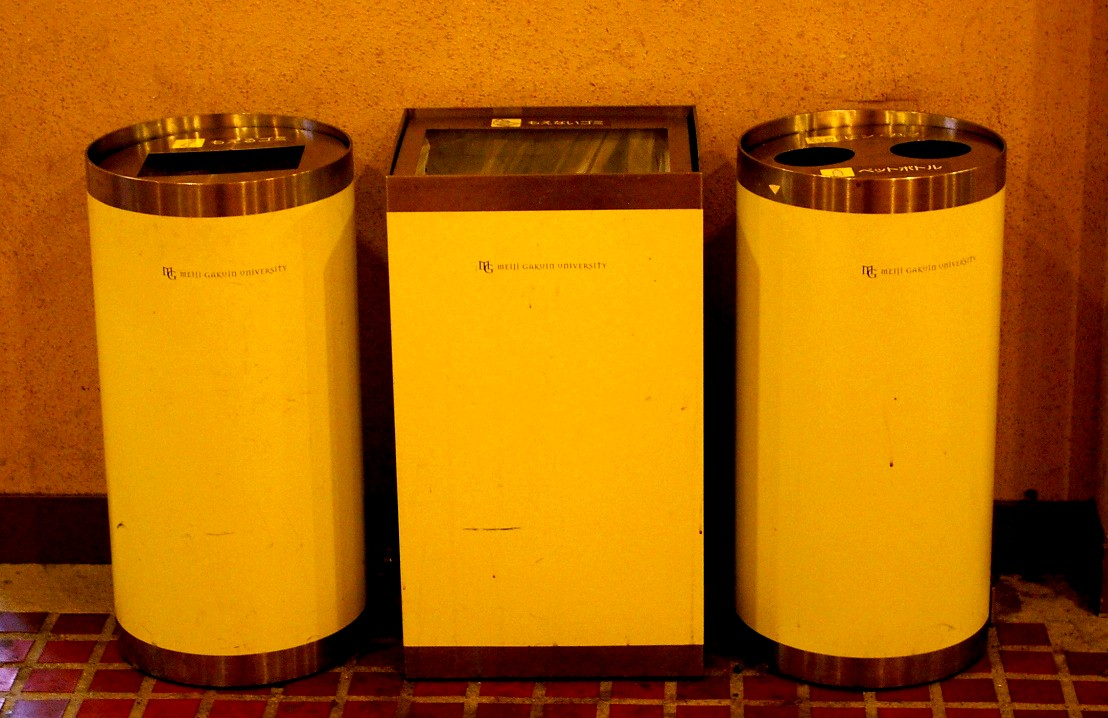 Sorted waste containers at Meiji Gakuin University, Tokyo, Japan